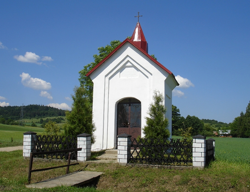 Wola Sękowa